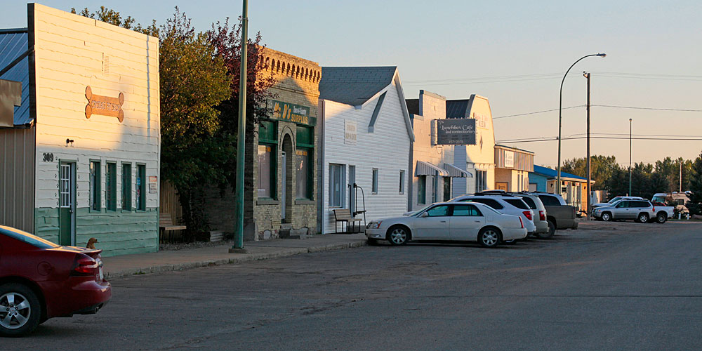 Main street in Stoughton, Saskatchewan, Canada